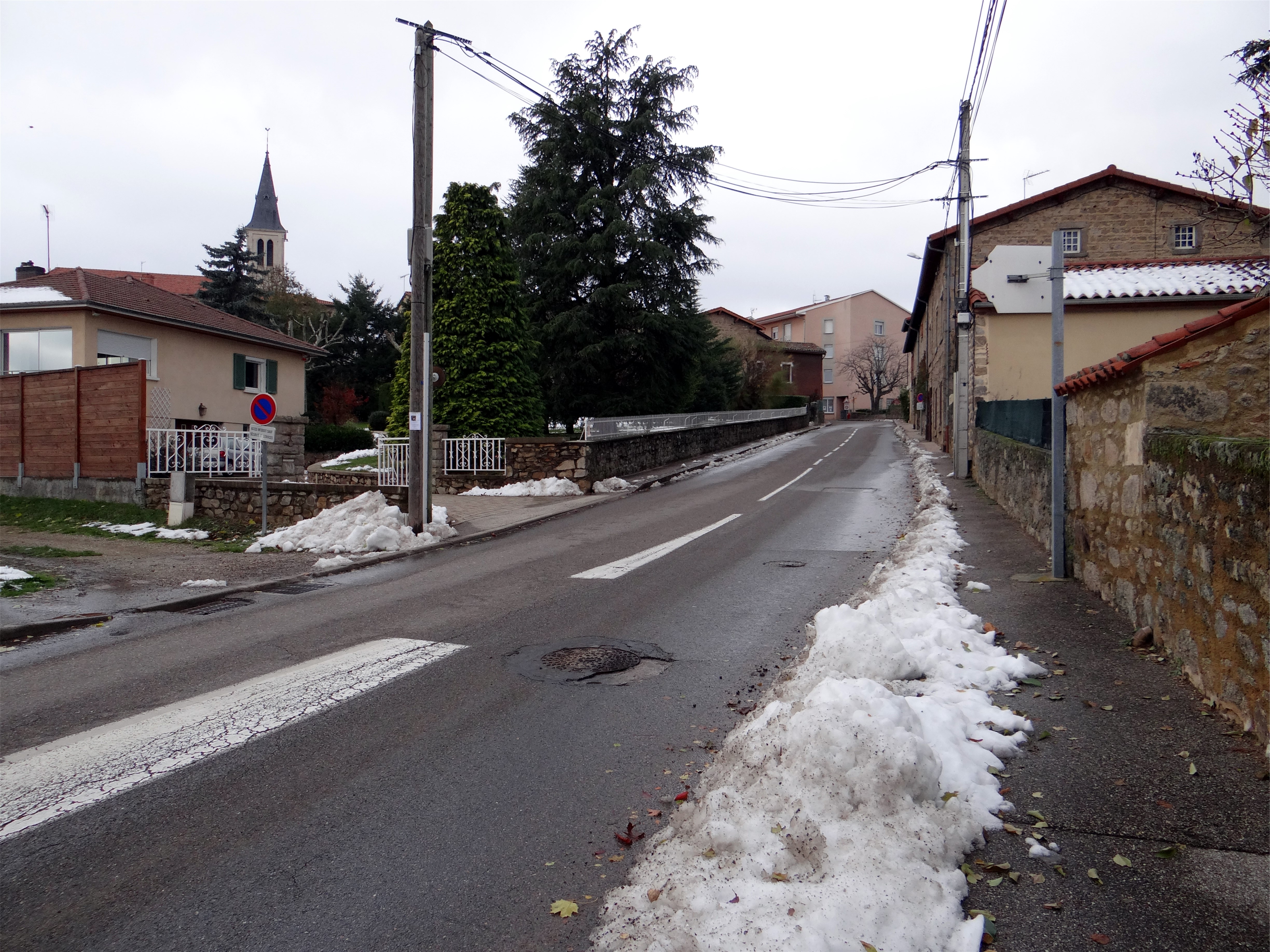 Entrance to the village by road from Thurins (D75) Rontalon, Rhône, France.